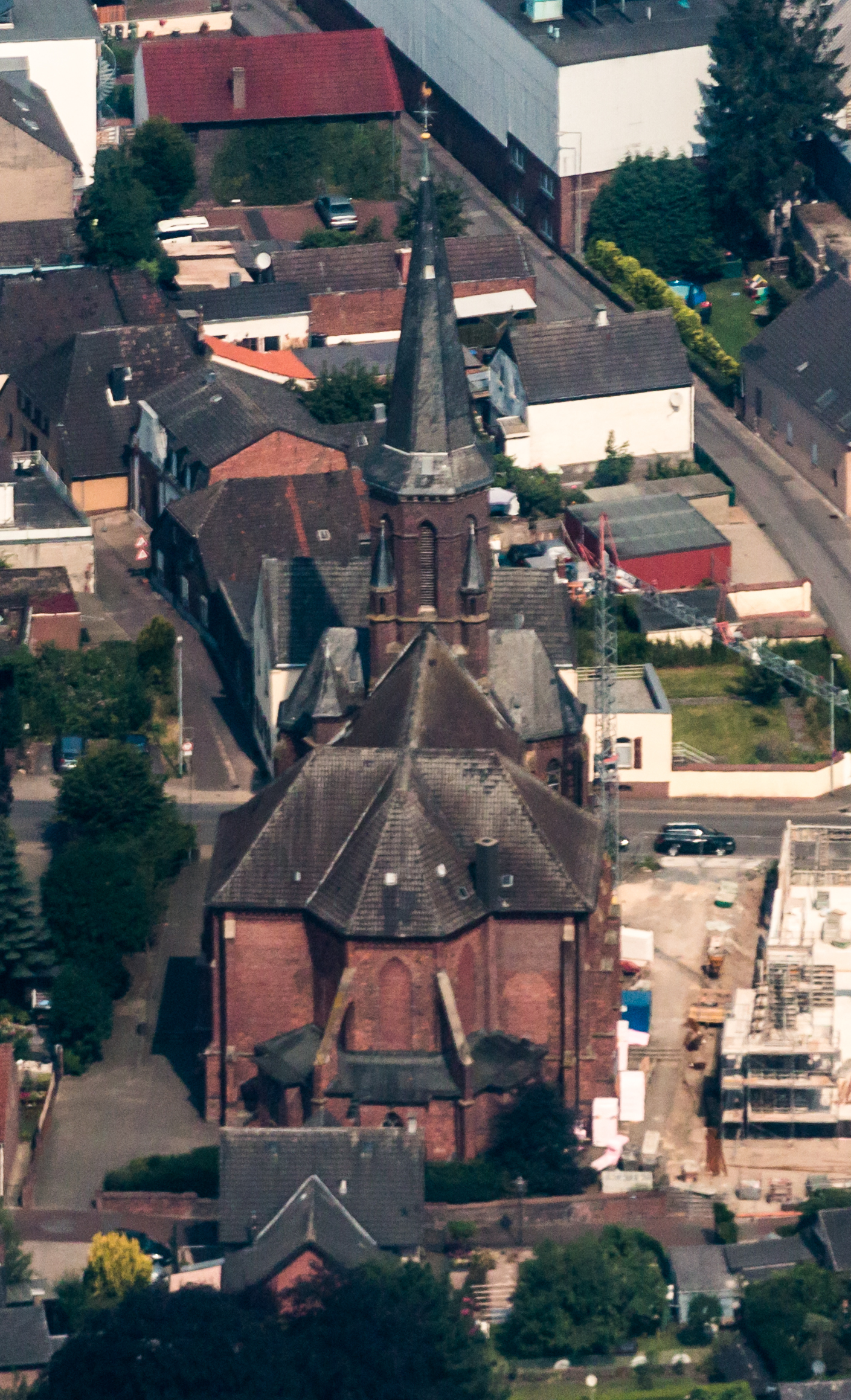 St. Bartholomew Church, Isselburg, North Rhine-Westphalia, Germany